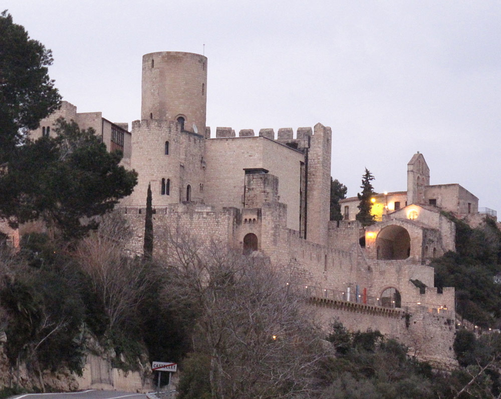 The Castle of Castellet